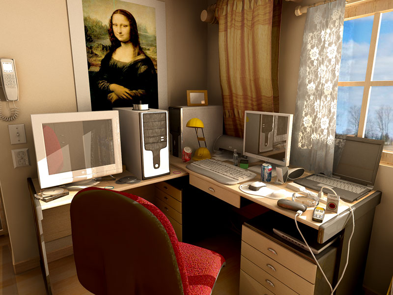 Mental ray for Maya rendering test! Maya Nurbs and Poly Modeling, Mental Ray Area Lights, Image Based Lighting and Final Gather! Ambient Occlusion and final output to EXR format! Modeling, texturing and rendering by Alex Sandri. Keywords: Intericad, Immodelise, 3d, Autodesk, Maya, Cg, Digital, Art, Architecture, Visualization, Bangkok, Thailand, Koh, Samui, Alex, Sandri, Graphics, Animations, Rendering, Mental Ray 3D Autodesk Maya & Mental ray Architectural Visualizations.